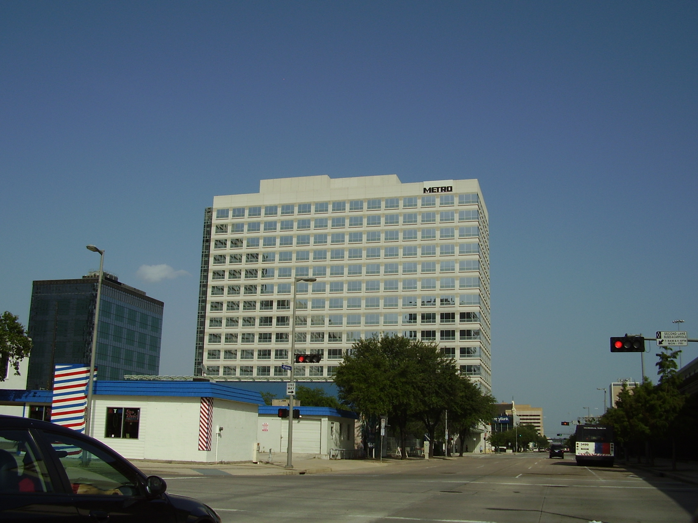 Lee P. Brown Administration Building, the Metropolitan Transit Authority of Harris County, Texas (METRO) headquarters